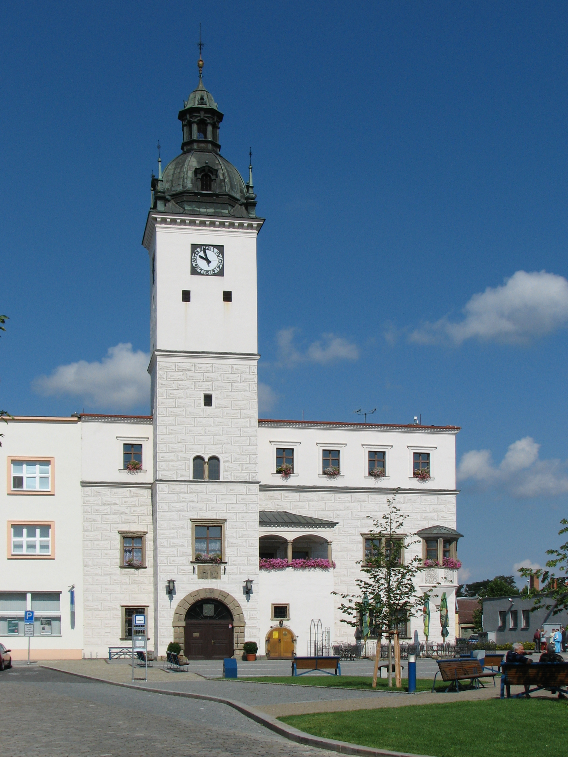 Kyjov town hall, Hodonín district, Czech Republic